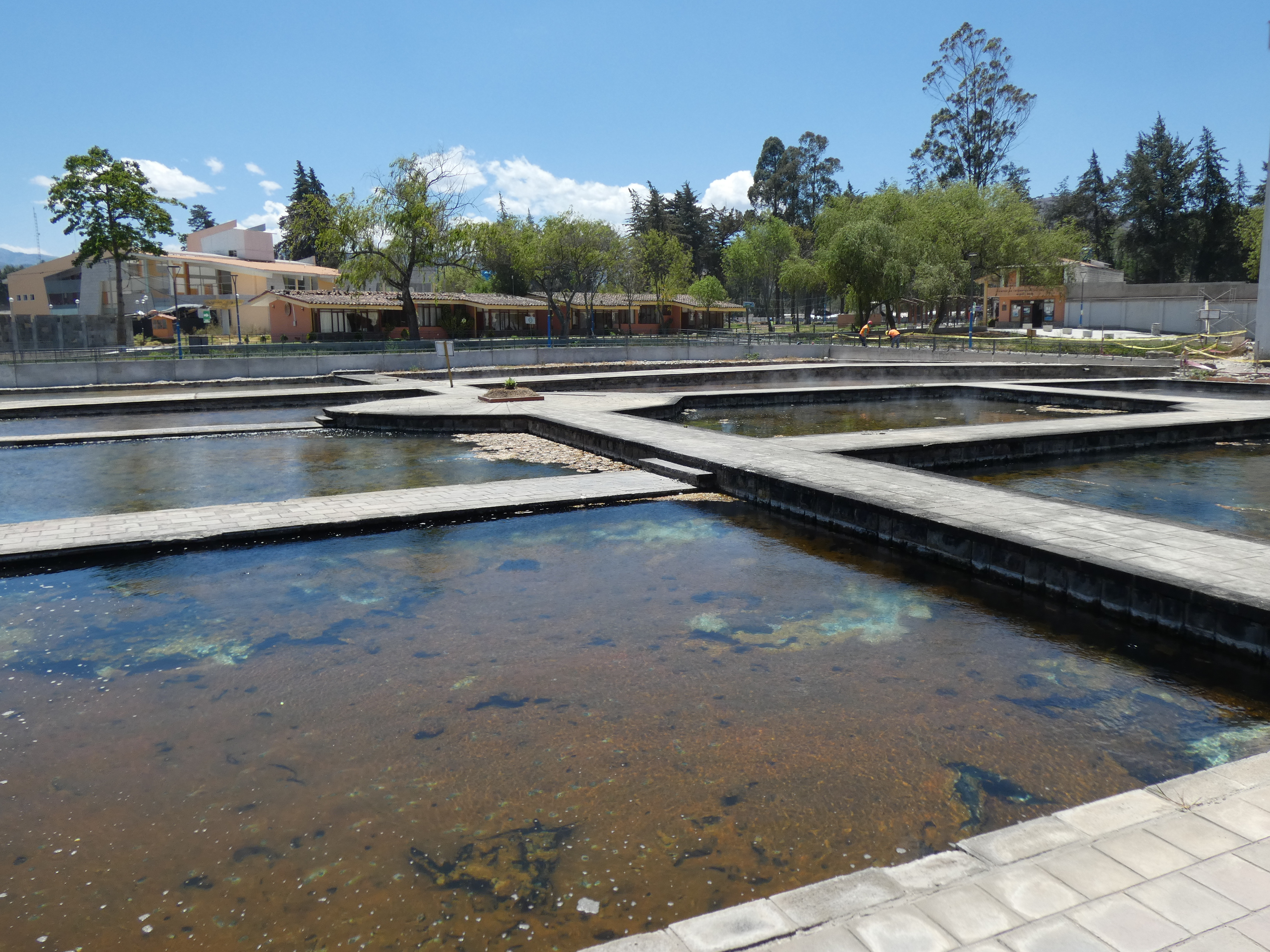 Outside pools of the thermal baths Baños del Inca (not in function here, because construction site), Cajamarca dirstrict, Peru